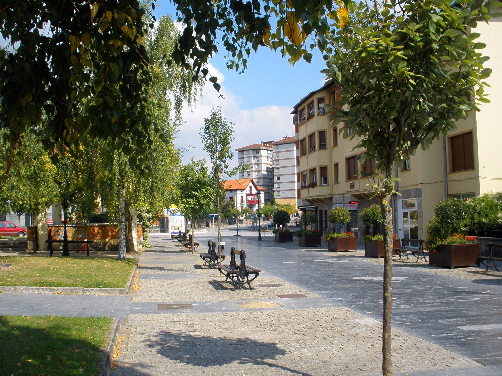 Calle en Amurrio (Álava)